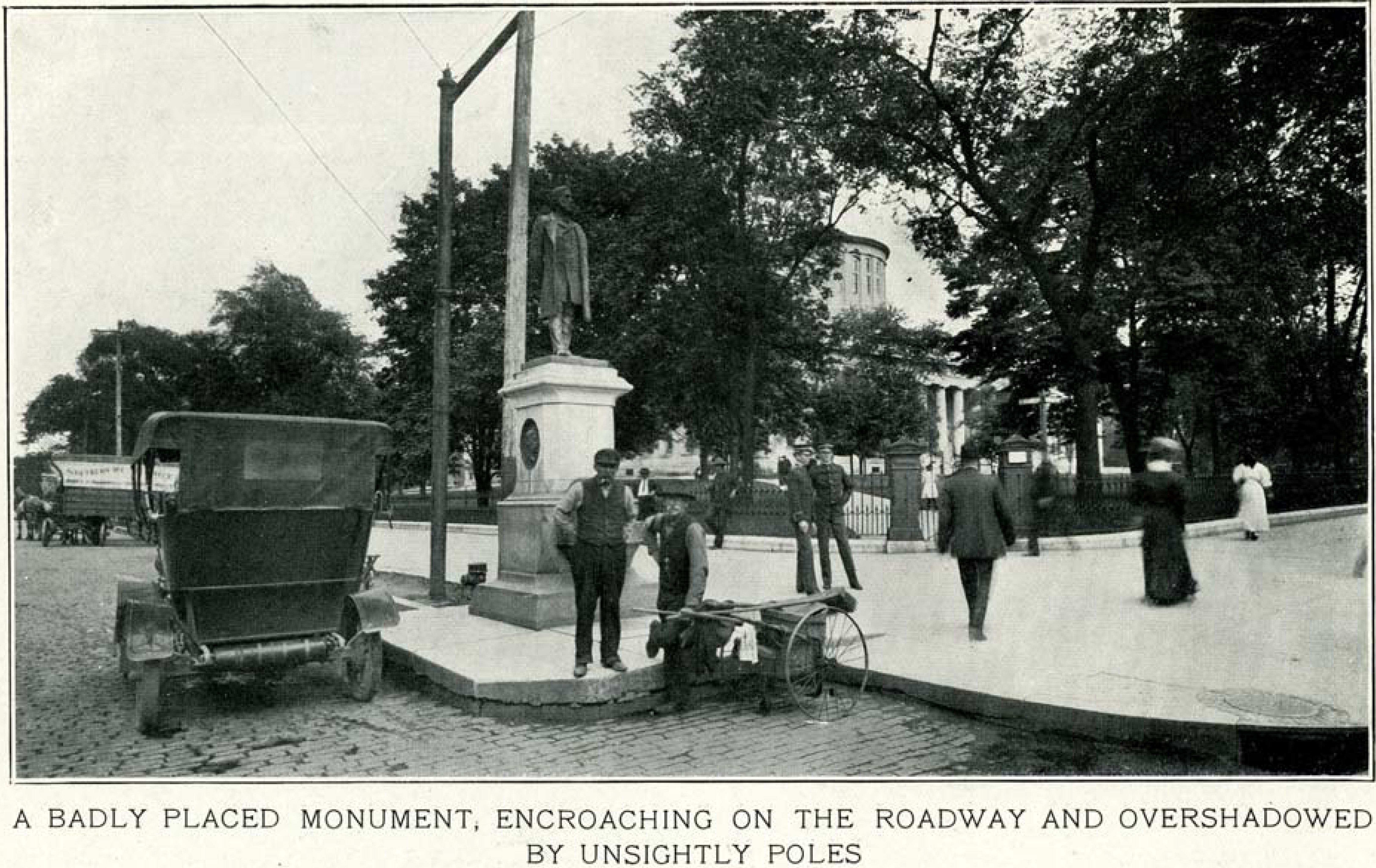 Image from the 1908 Columbus Plan. Statue is of Dr. Samuel Smith, and is now located on the OSU campus - Harding Hospital.